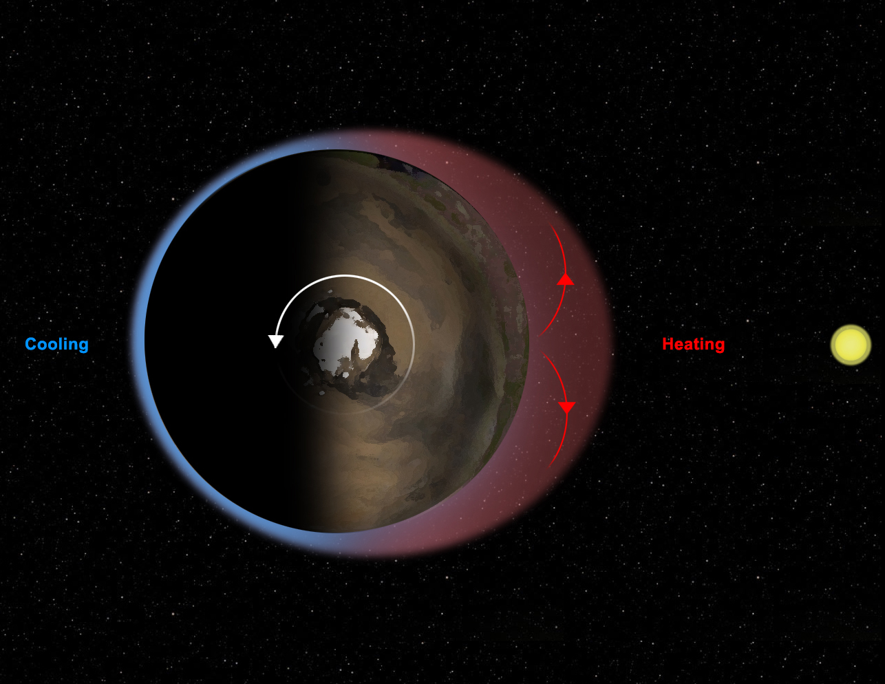 Thermal Tides at Mars This diagram illustrates Mars' "thermal tides," a weather phenomenon responsible for large, daily variations in pressure at the Martian surface. Sunlight heats the surface and atmosphere on the day side of the planet, causing air to expand upwards. At higher levels in the atmosphere, this bulge of air then expands outward, to the sides, in order to equalize the pressure around it, as shown by the red arrows. Air flows out of the bulge, lowering the pressure of air felt at the surface below the bulge. The result is a deeper atmosphere, but one that is less dense and has a lower pressure at the surface, than that on the night side of the planet. As Mars rotates beneath the sun, this bulge moves across the planet each day, from east to west. A fixed observer, such as NASA's Curiosity rover, measures a decrease in pressure during the day, followed by an increase in pressure at night. The precise timing of the increase and decrease are affected by the time it takes the atmosphere to respond to the sunlight, as well as a number of other factors including the shape of the planet's surface and the amount of dust in the atmosphere.